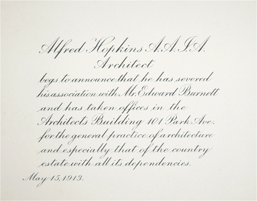 Advertisement announcing Alfred Hopkins professional practice and address on May 15, 1913.